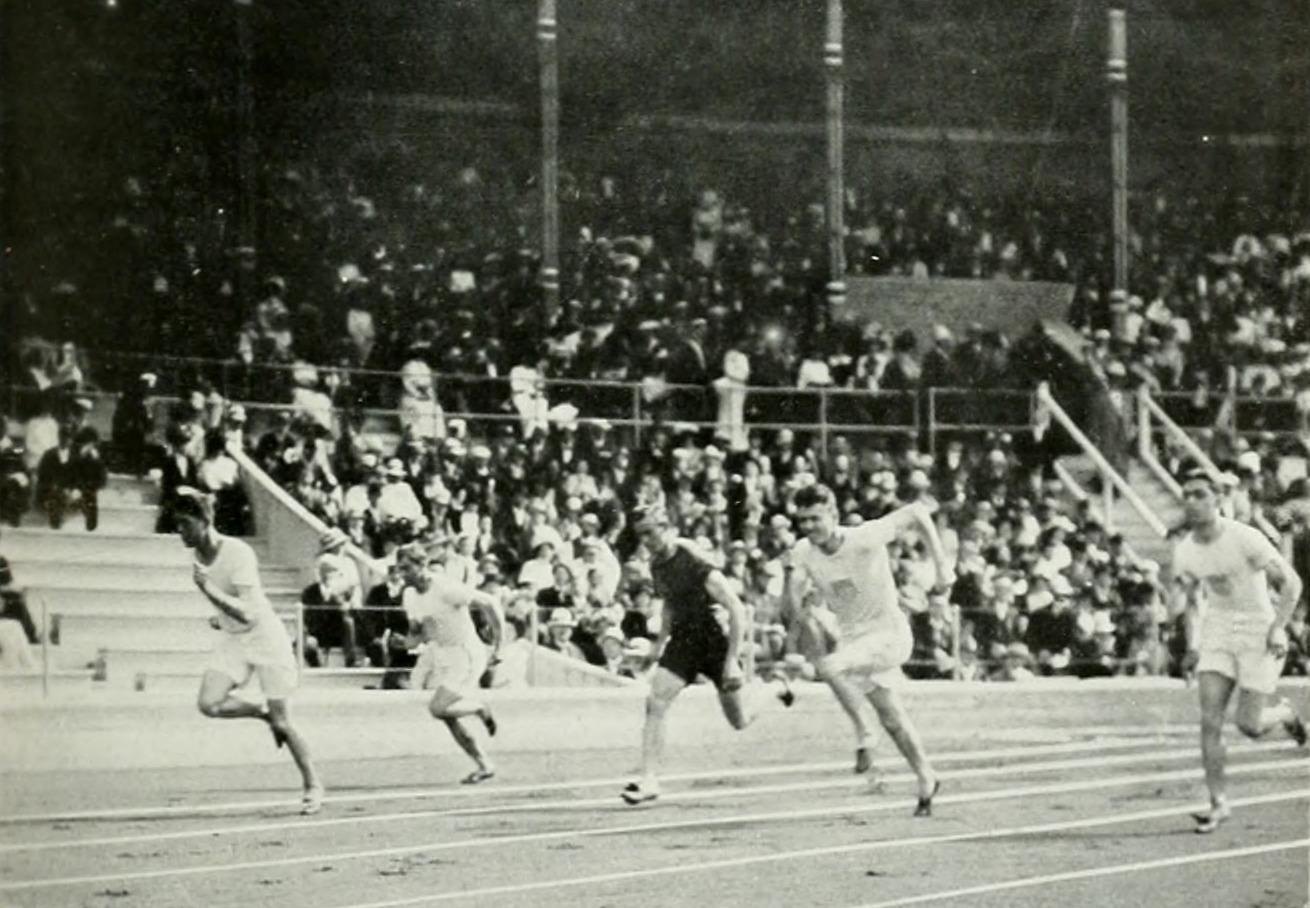 Immediatly after the start of the men's 100 metre final at the 1912 Summer Olympics